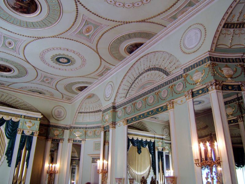 Interior and ceiling of Home House — London.